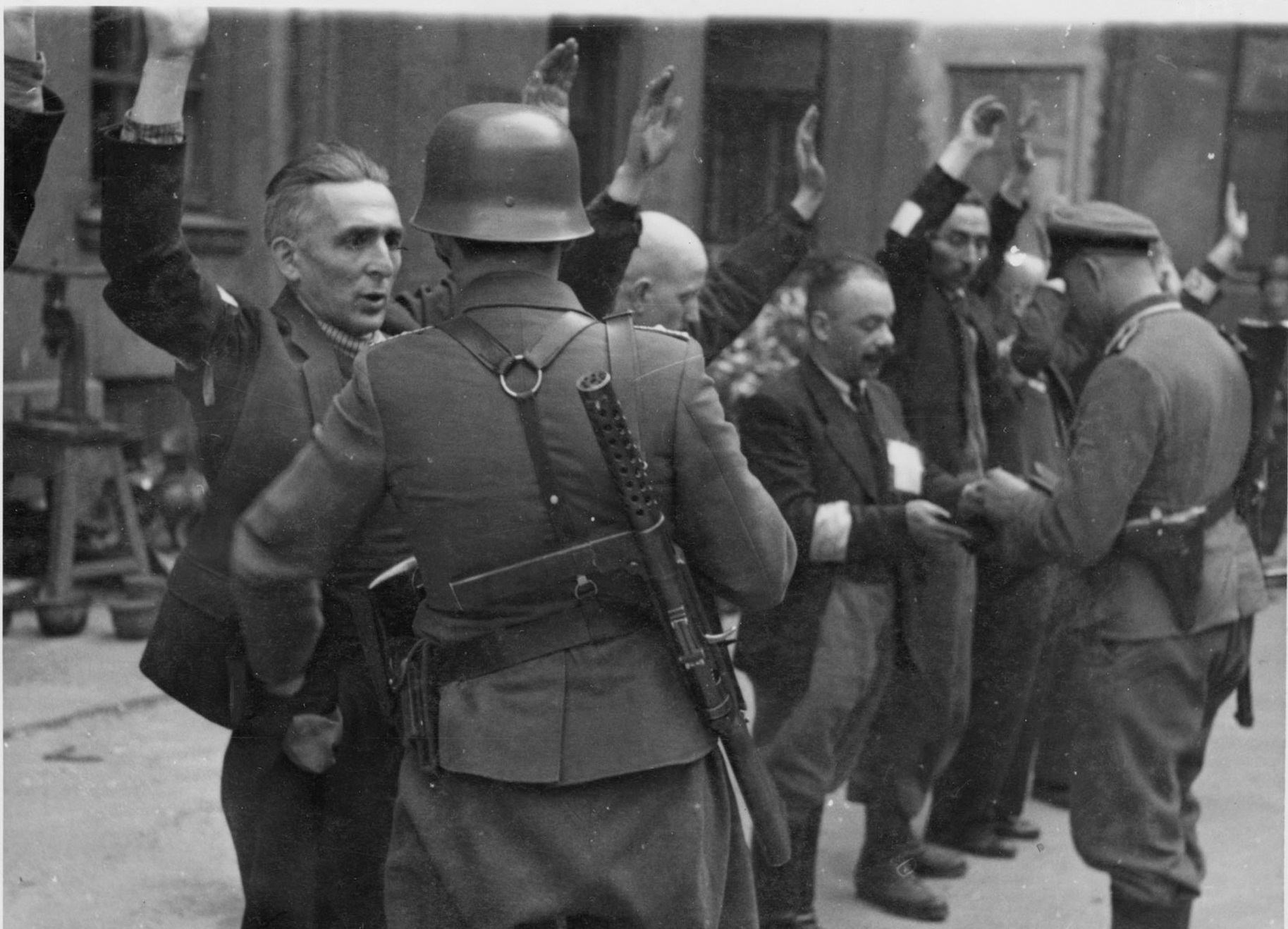 Warsaw Ghetto Uprising: Photograph of SS troops arrest the Jewish department heads of the Brauer helmet factory. The Brauer "shop", of Herman Brouer, made helmets for the German Army, was located at Nalewki 28-38 street and employed 2 thousand people.[3] Their workers were probably of the last Jews to be deported from the ghetto. With the outbreak of the uprising on April 19, 1943, Hermann Brauer promised those Jewish work managers who hadn't gone into hiding, that the factory would continue to operate, and asked that they come to work. These managers received special transit passes to move freely about the ghetto, which were attached to their coat lapels. On April 24, 1943 at five o'clock p.m. the SS made a raid on the factory, rounding up the managers and conducting body searches prior to deporting them, then setting fire to the factory.